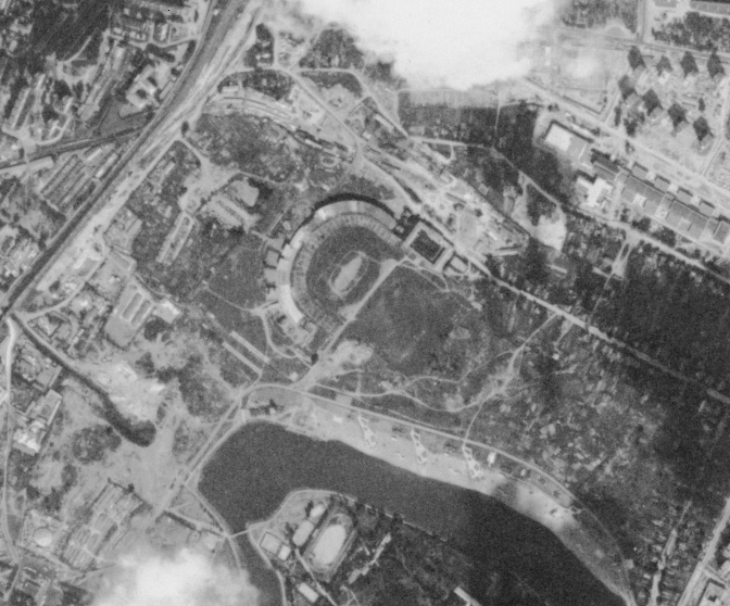 Unfinished and abandoned Izmailovo stadium, Moscow. Part of Corona satellite imagery